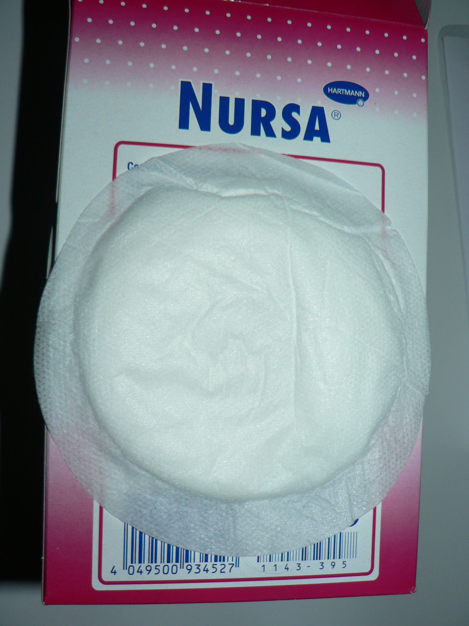 breast pad (Nursa)